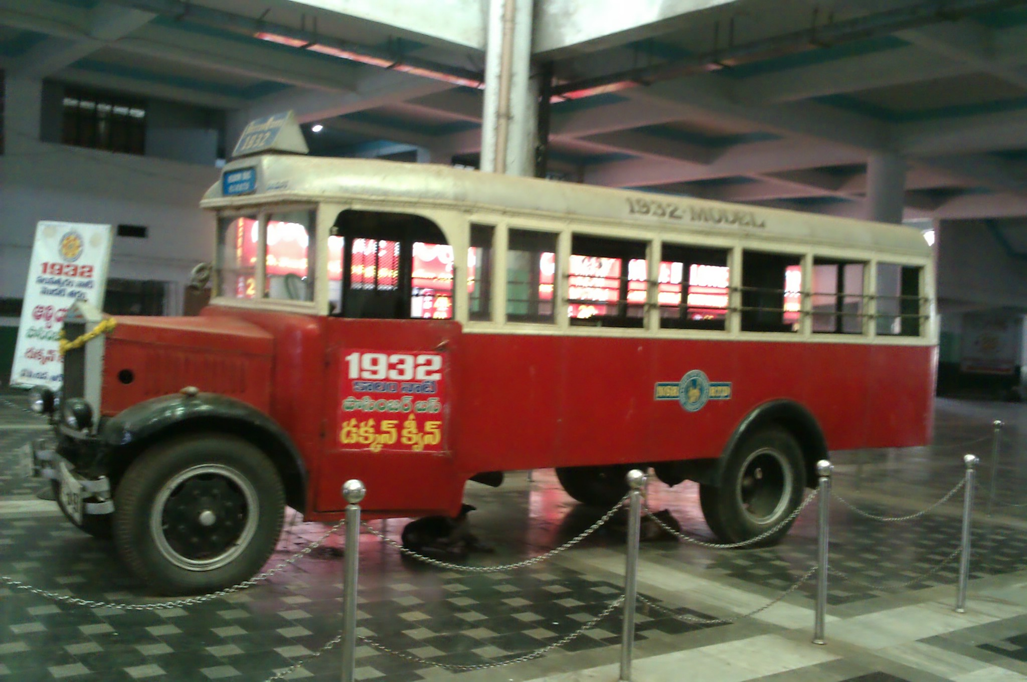 The vintage bus on display at Vijayawada bus station.